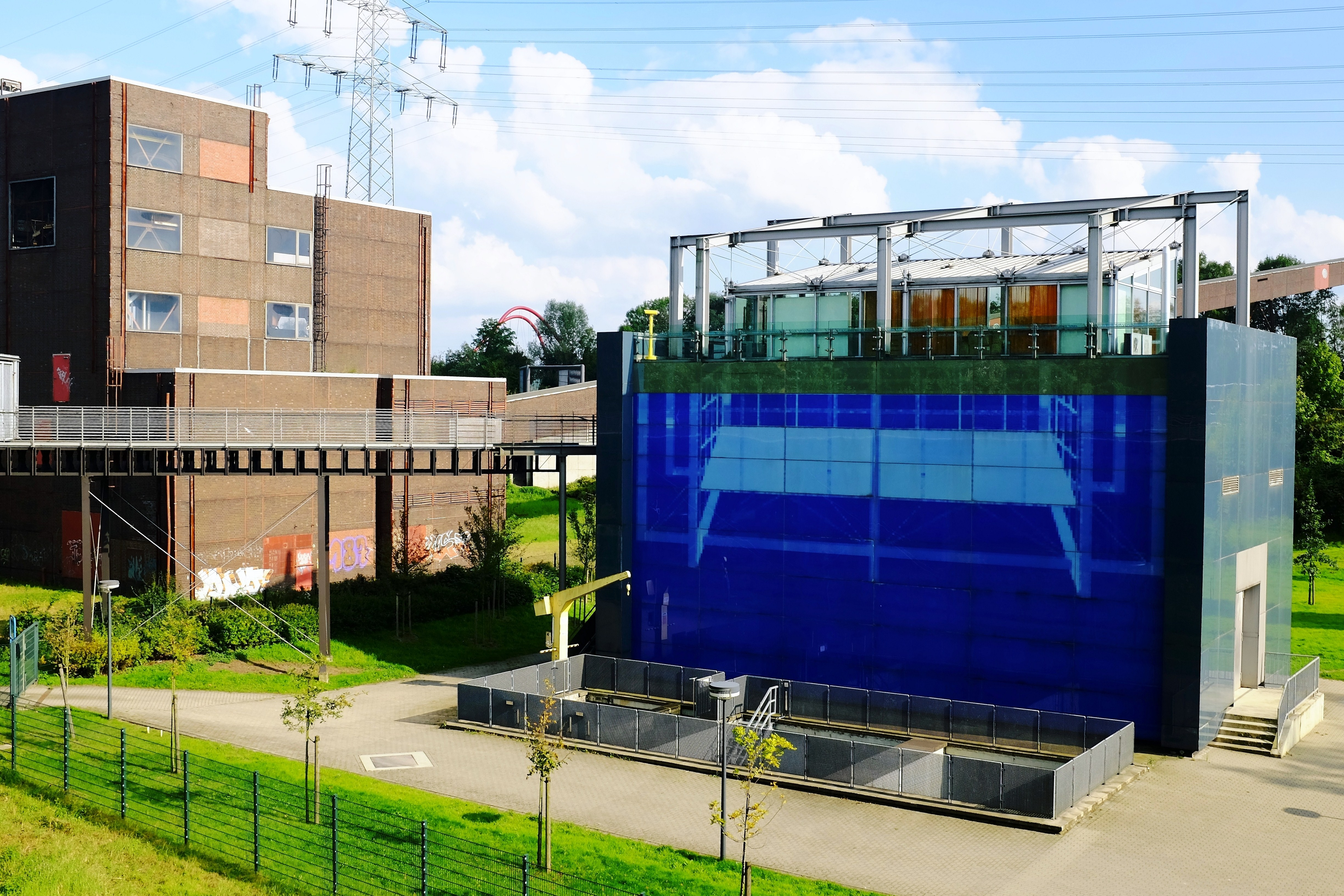 nordsternpark pumphouse